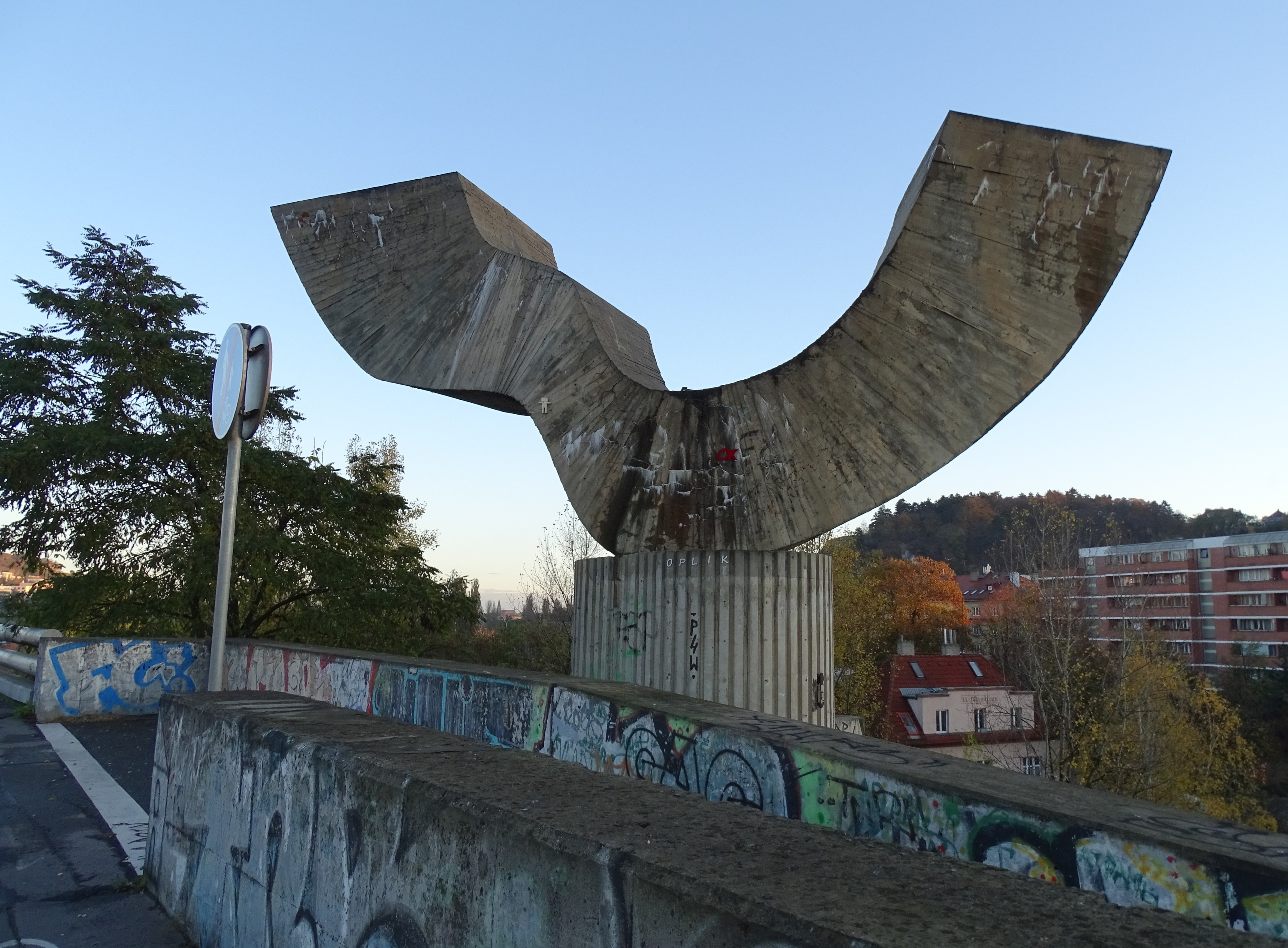 Prague-Braník, Czechia, Barrandovský most, a scupture.